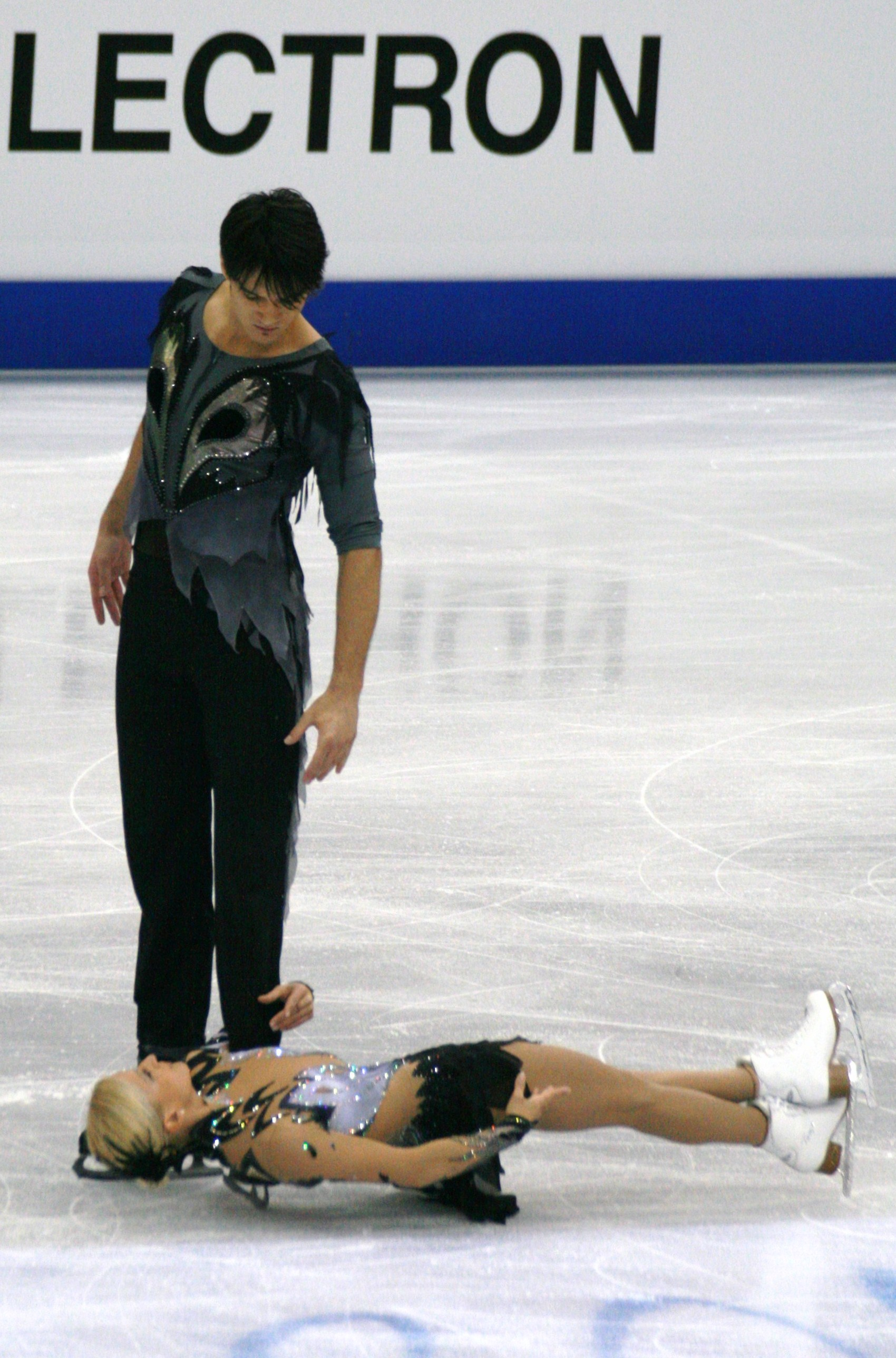 Tatiana Volosozhar and Maxim Trankov at the start of their free skate at the 2012 World Figure Skating Championships